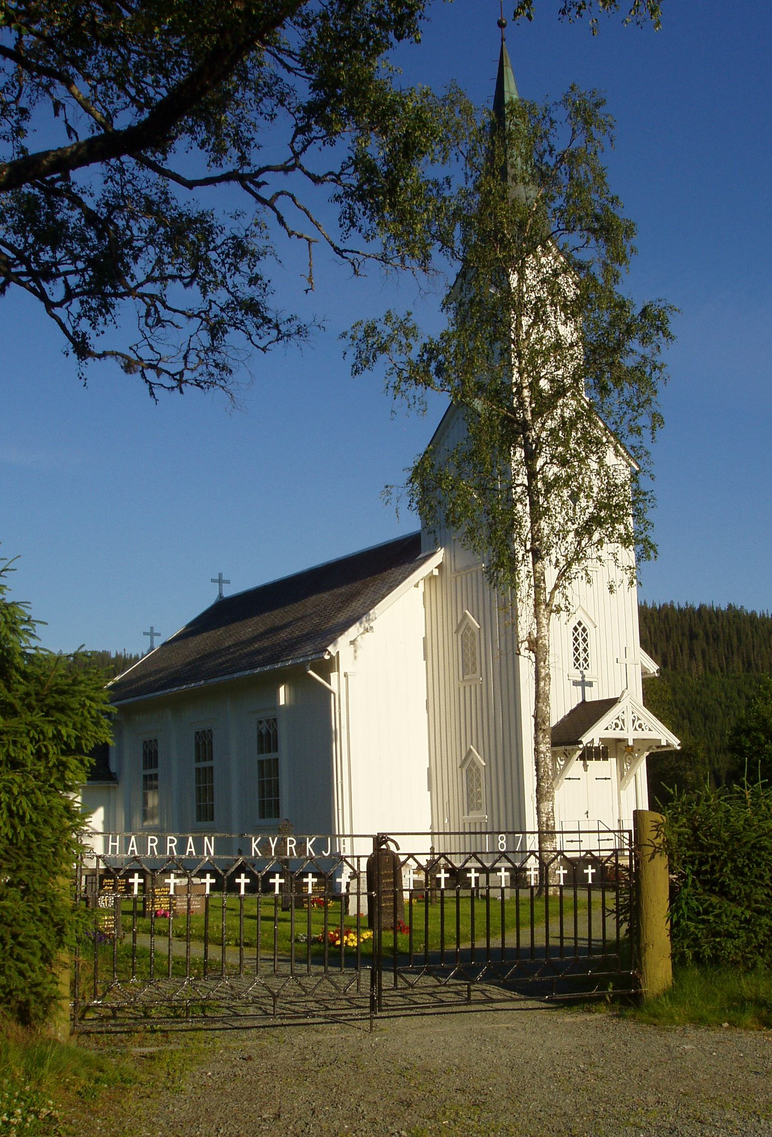 Harran church